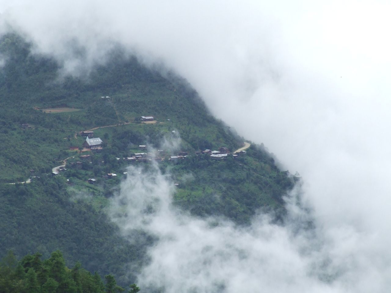 Hiang Ziing Village, Chin State, Myanmar (Burma).